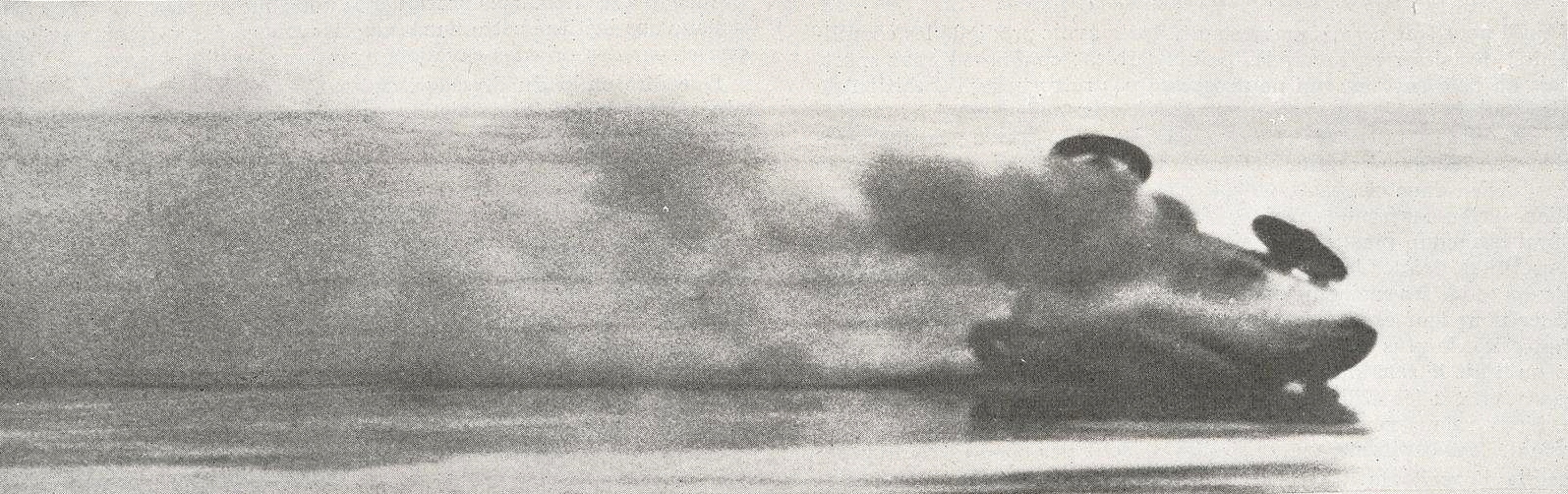 The "Djelmo" accident, November 26 1927